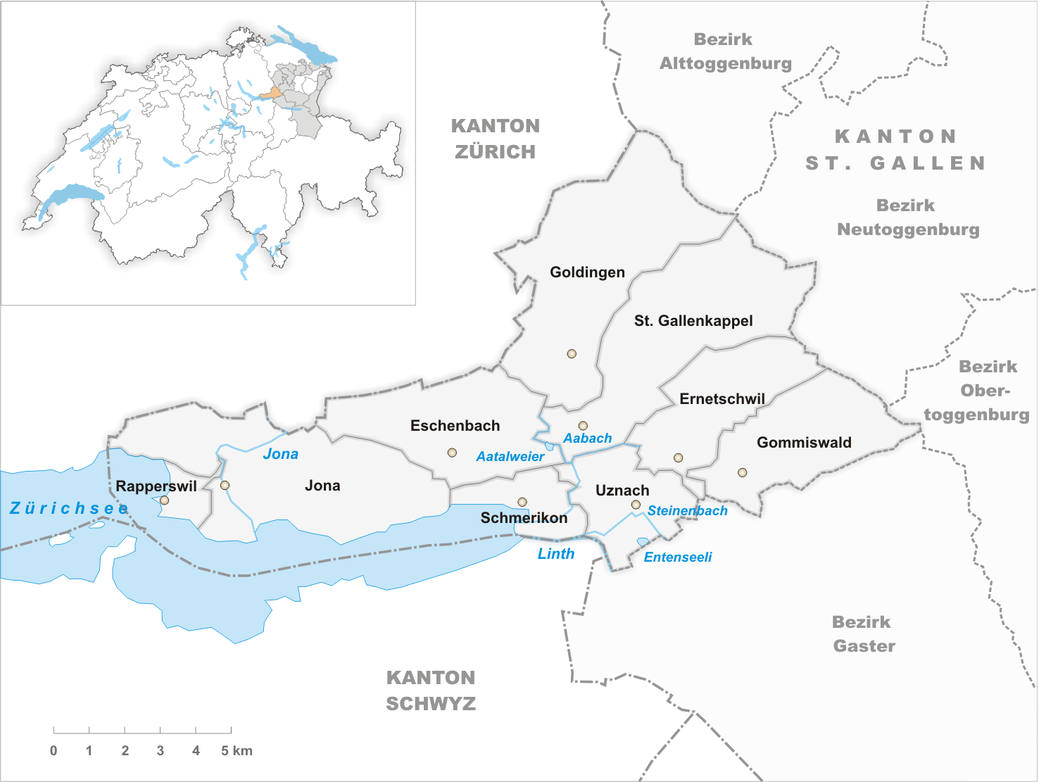 Municipalities in the district of See until 2002 Map drawn by Tschubby